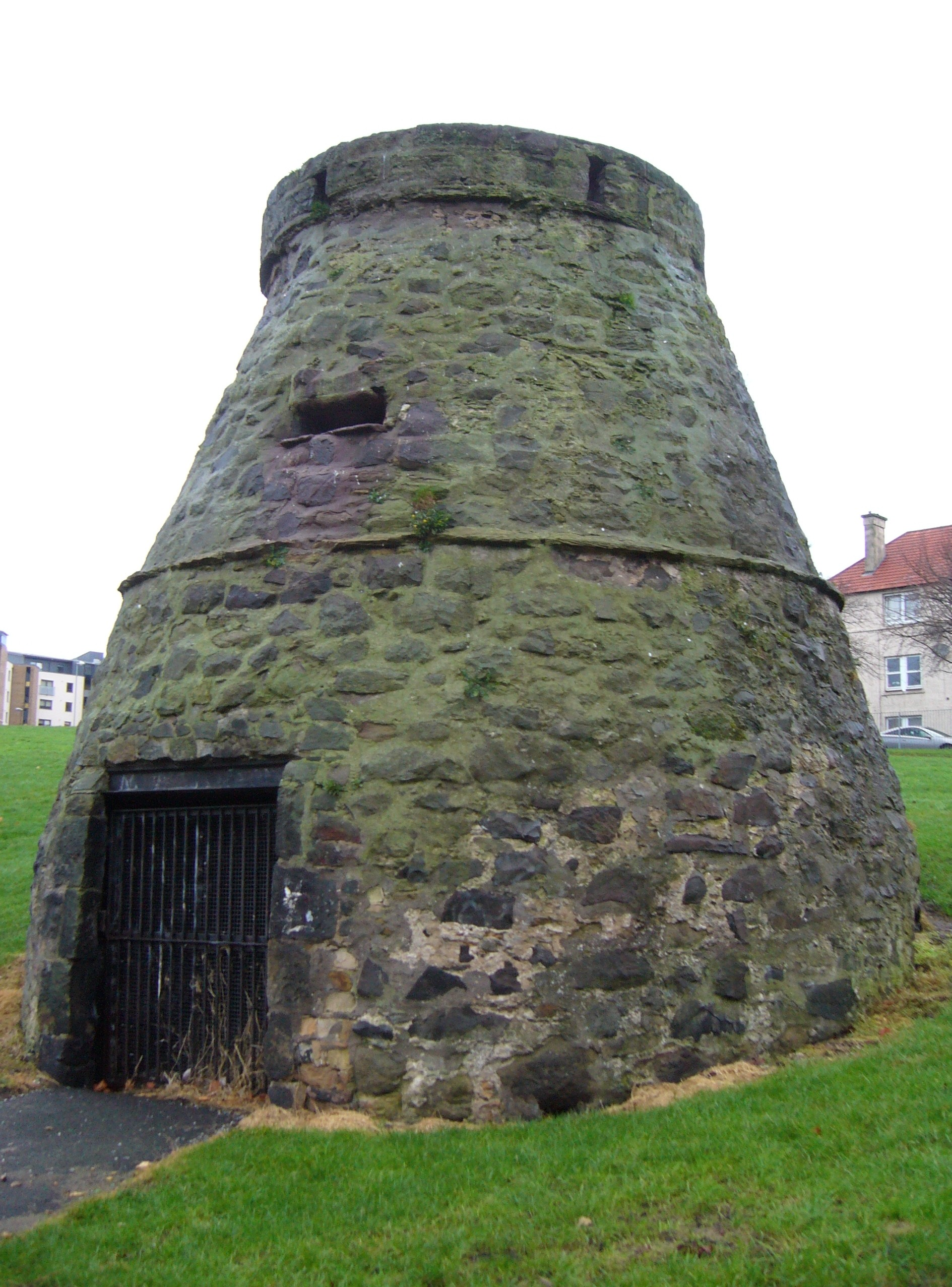 Lochend Castle doocot (16thC)